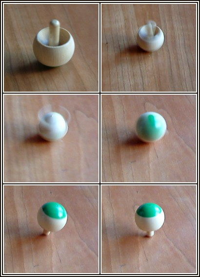 Tippe top